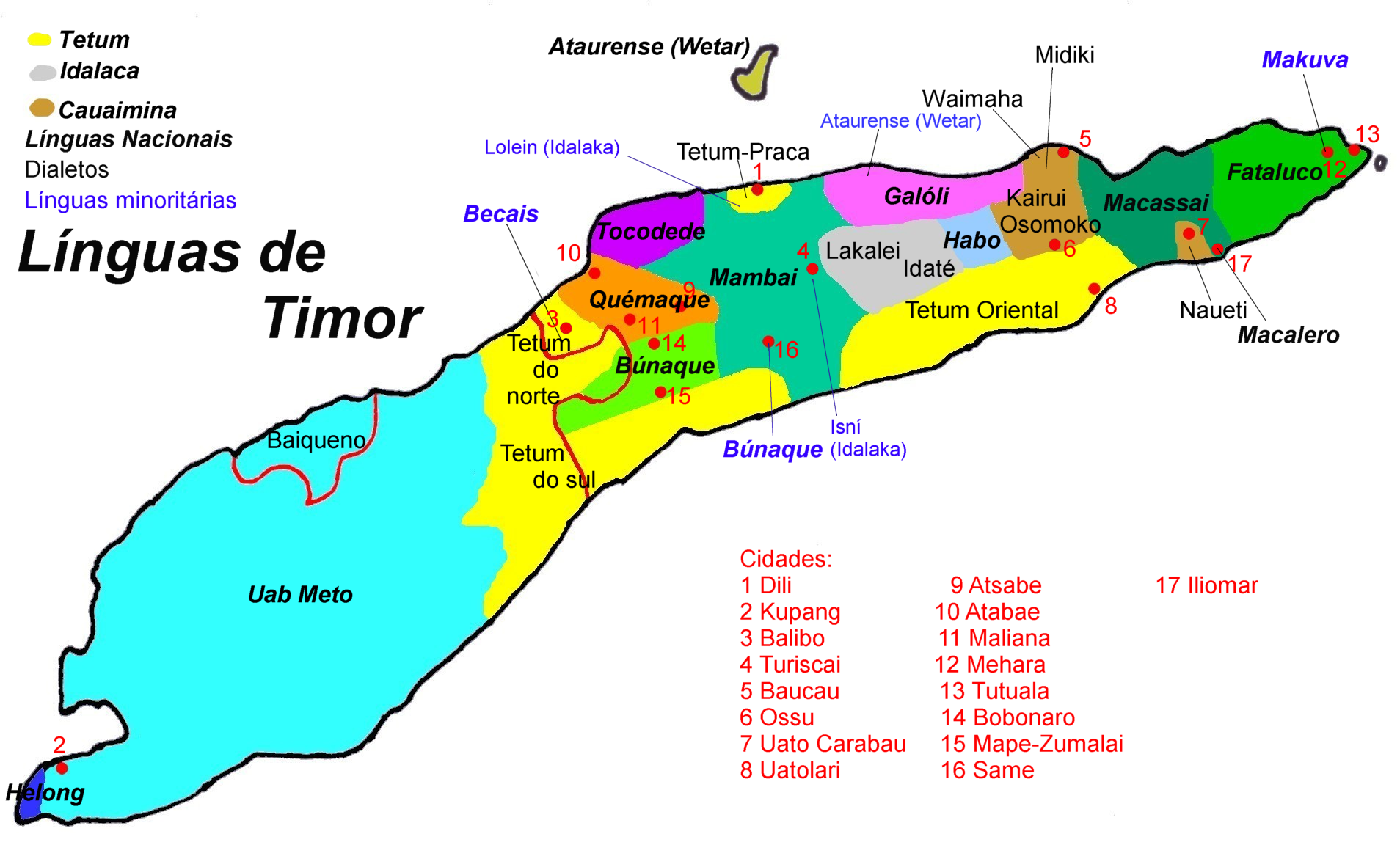 Languages of Timor as of 2006 (German)